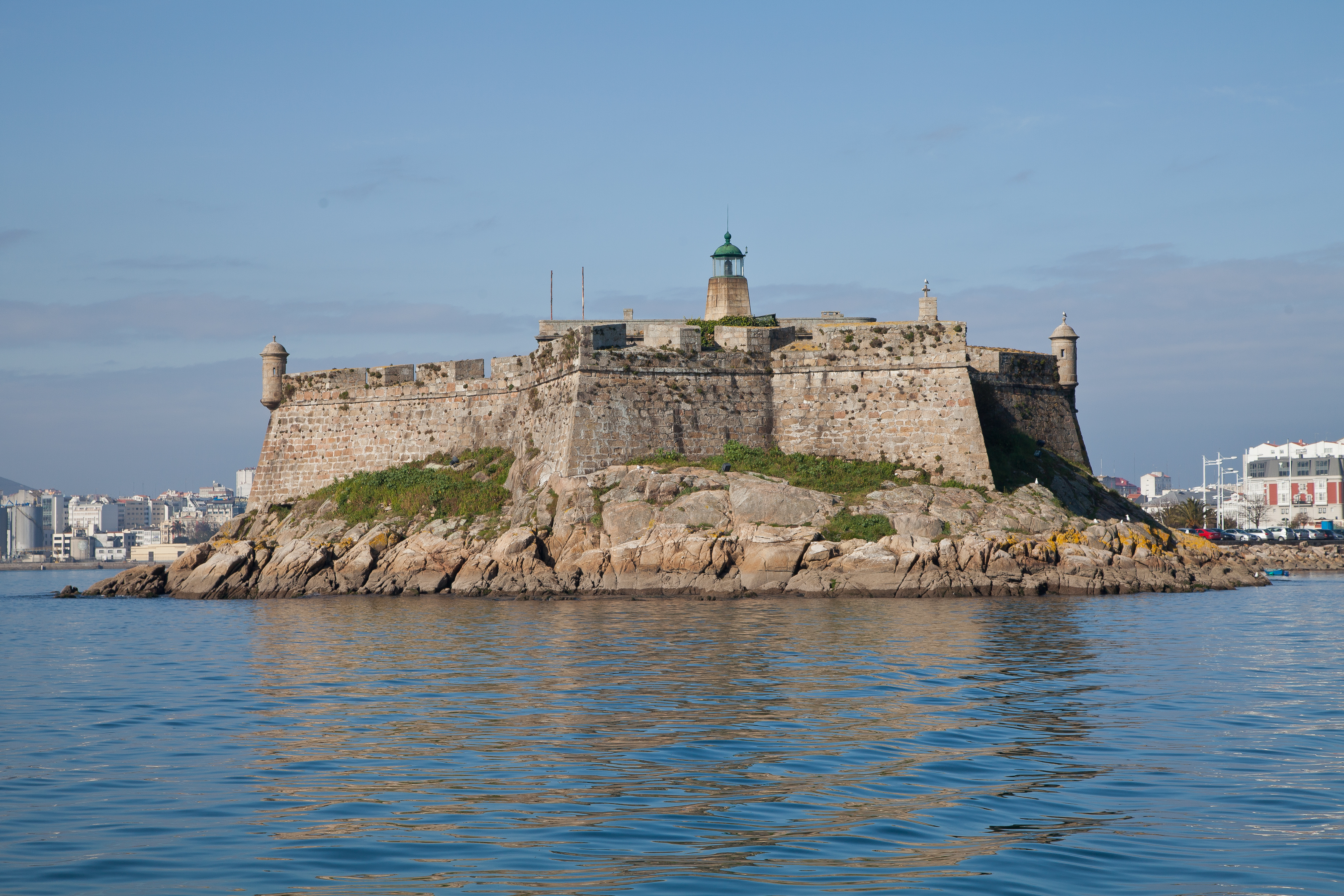 Castle of Saint Anthony, A Coruña, Galicia, Spain